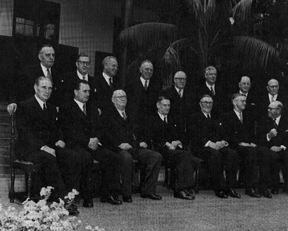 South African government in 1953. Back row from left to right : E. H. Louw; Dr T. E. Donges; F. C. Erasmus; B. J. Schoeman;J. F. Naude; Sen. H. Verwoerd; J. H. Viljoen; Dr. K. Bremer.. Front row from left to right : S. P. le Roux; J. C. Strydom; Dr. D. F. Malan; Dr. E. G. Jansen; N. C. Havenga; C. R. Swart & P. O. Sauer.